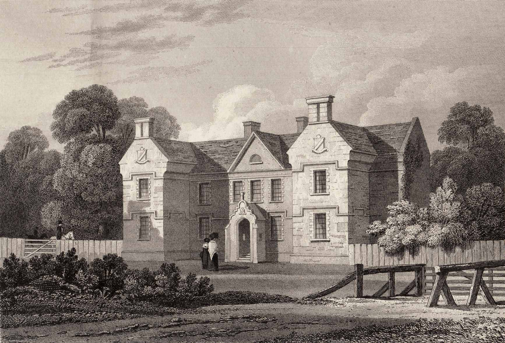 An engraving of Crotta House, Kilflynn, Ireland, by John Preston Neale, published in 1823. The house was built in 1669 by Henry Ponsonby.